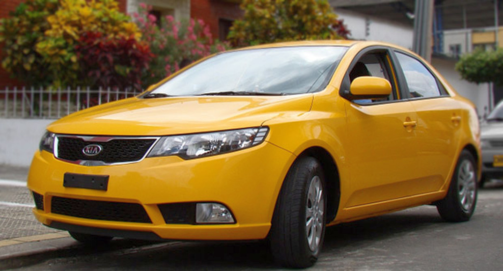 Kia still use the name plate "SEPHIA" in Latin America, it is sold especially for Taxi use.